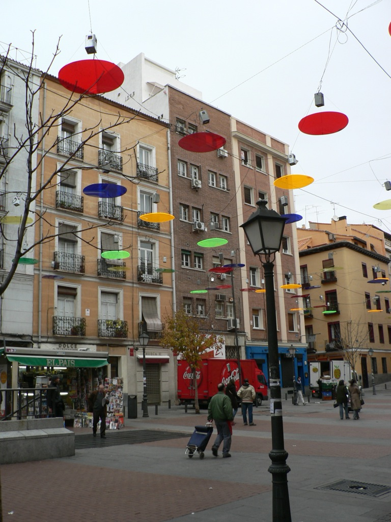 The colored discs over this plaza are lit up at night, making for a festive central area at Christmas in the Chueca neighborhood of Madrid.